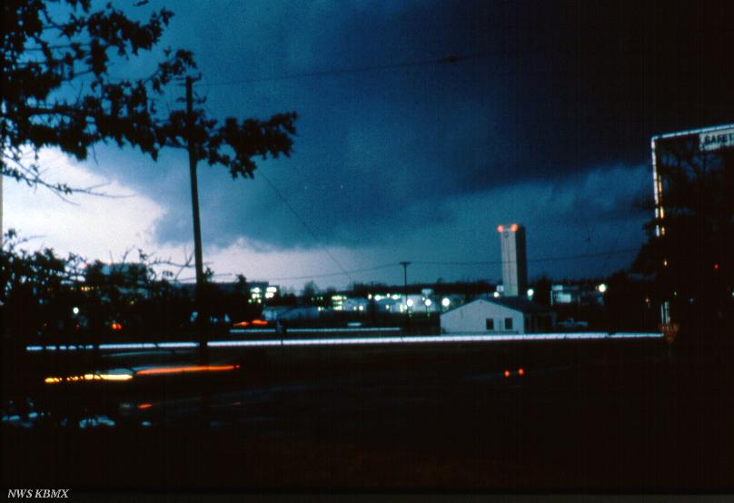 A wall cloud over Redstone Arsenal foreshadowed much destruction to come.